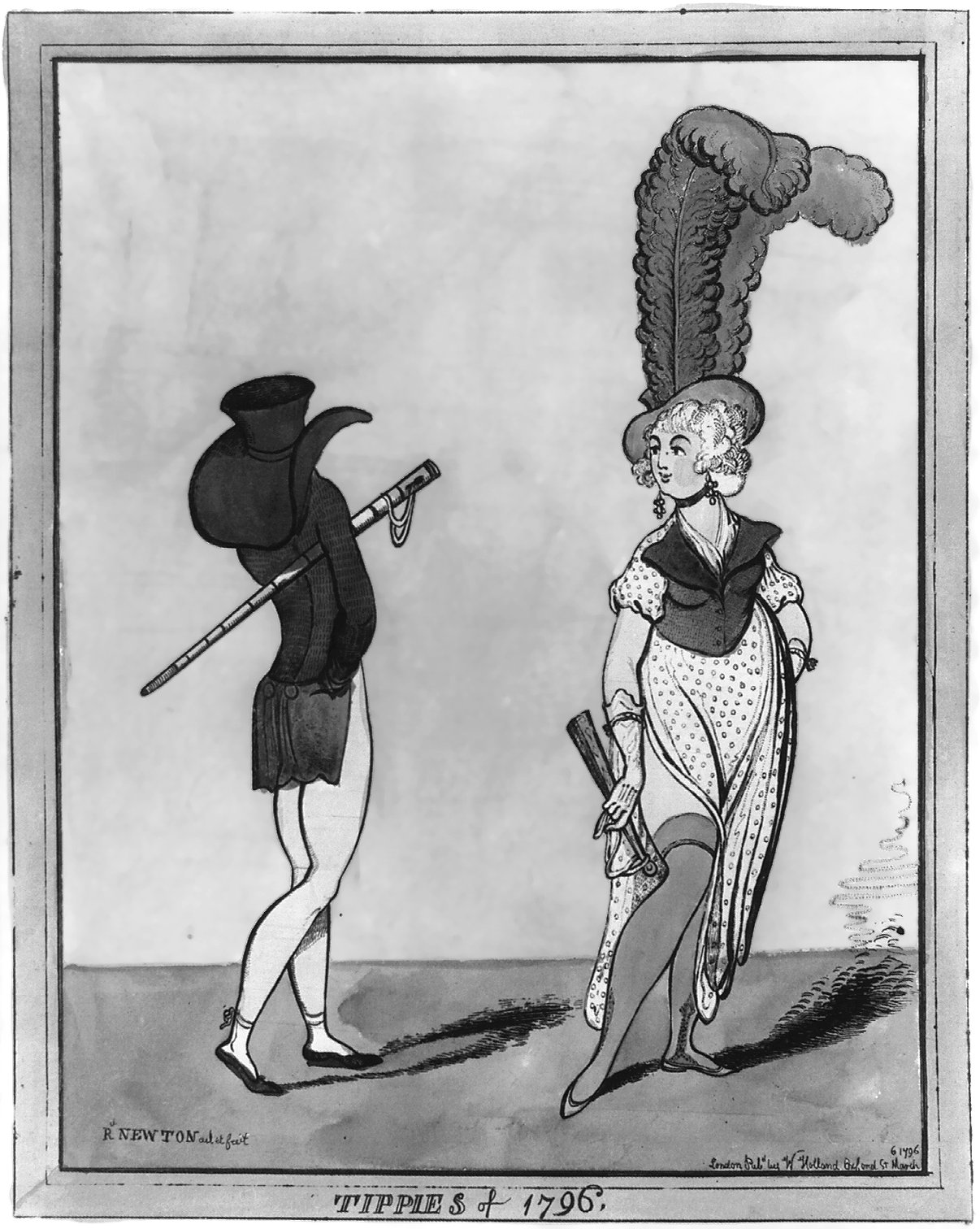 "Tippies of 1796", a rather stylized and extreme March 6th 1796 fashion caricature by Richard Newton, paying special attention to headgear (this is presumably the "tip" in "tippy"). The ca. 1796-1798 fashion of one or two feathers issuing vertically from a woman's headdress is parodied through exaggeration, as are also women's neo-classically influenced gown styles (rather new in England in 1796), and men's ultra-tight trousers (or "calf-clingers" in the slang of the period). The woman appears to be wearing a short "spencer" jacket which has been made sleeveless for the purposes of caricature, and of course women's dresses of 1796 weren't actually slit to the upper thigh (hemlines of skirts always descended to within an inch or two above the ankle, at highest, and were frequently even longer). Bibliographic information on the LoC site: TITLE: Tippies of 1796 / R. Newton del[ineavit]. et fecit. CALL NUMBER: PC 3 - 1796--Tippies of 1796 (A size) [P&P] REPRODUCTION NUMBER: LC-USZ62-59603 (b&w film copy neg.) No known restrictions on publication. SUMMARY: Print shows a man and a woman wearing the latest fashion in hats. MEDIUM: 1 print : etching, hand-colored. CREATED/PUBLISHED: London : Pub'd by W. Holland, Oxford St., 1796 March 6. CREATOR: Newton, Richard, 1777-1798, artist. NOTES: Title from item. Forms part of: British Cartoon Collection (Library of Congress). SUBJECTS: Hats--1790-1800. Feathers--1790-1800. Relations between the sexes--England--1790-1800. FORMAT: Satires (Visual works) British 1790-1800. Etchings British Hand-colored 1790-1800. DIGITAL ID: (b&w film copy neg.) cph 3b07345 CARD #: 2003675457